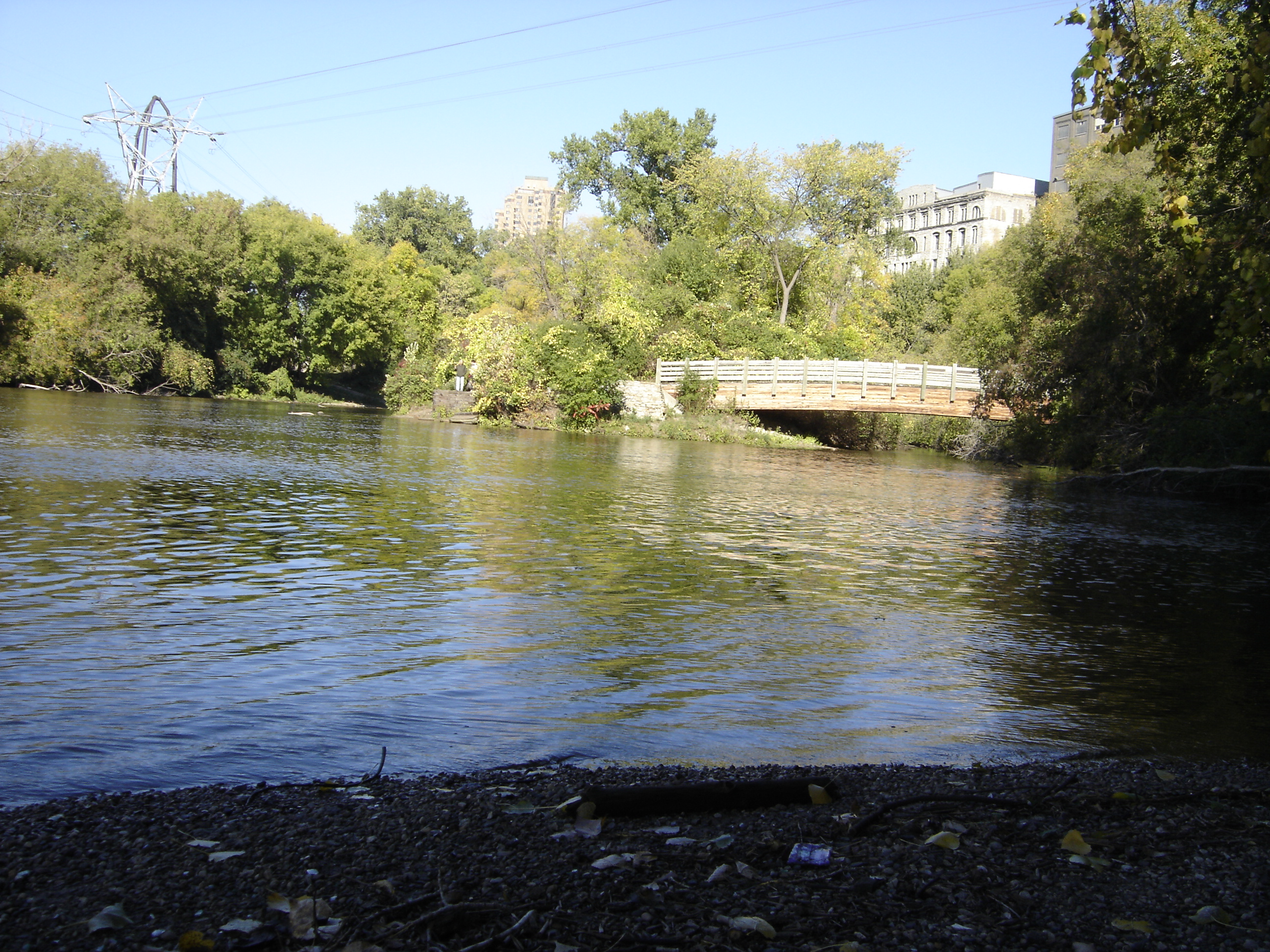 A small bridge by the Mississippi River, at the end of the Stone Arch Bridge, close to Saint Anthony Falls.